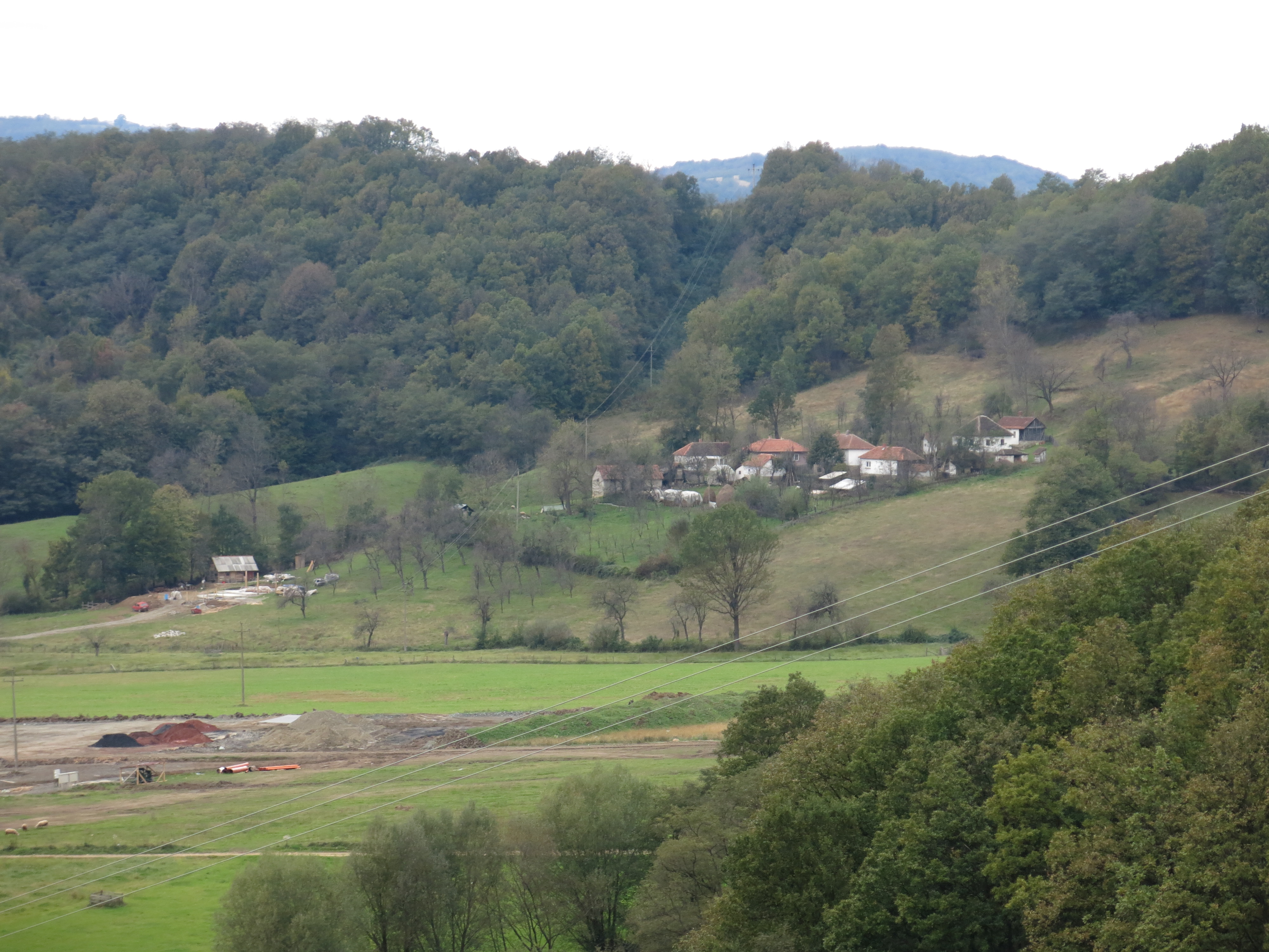 Dići, View of the village